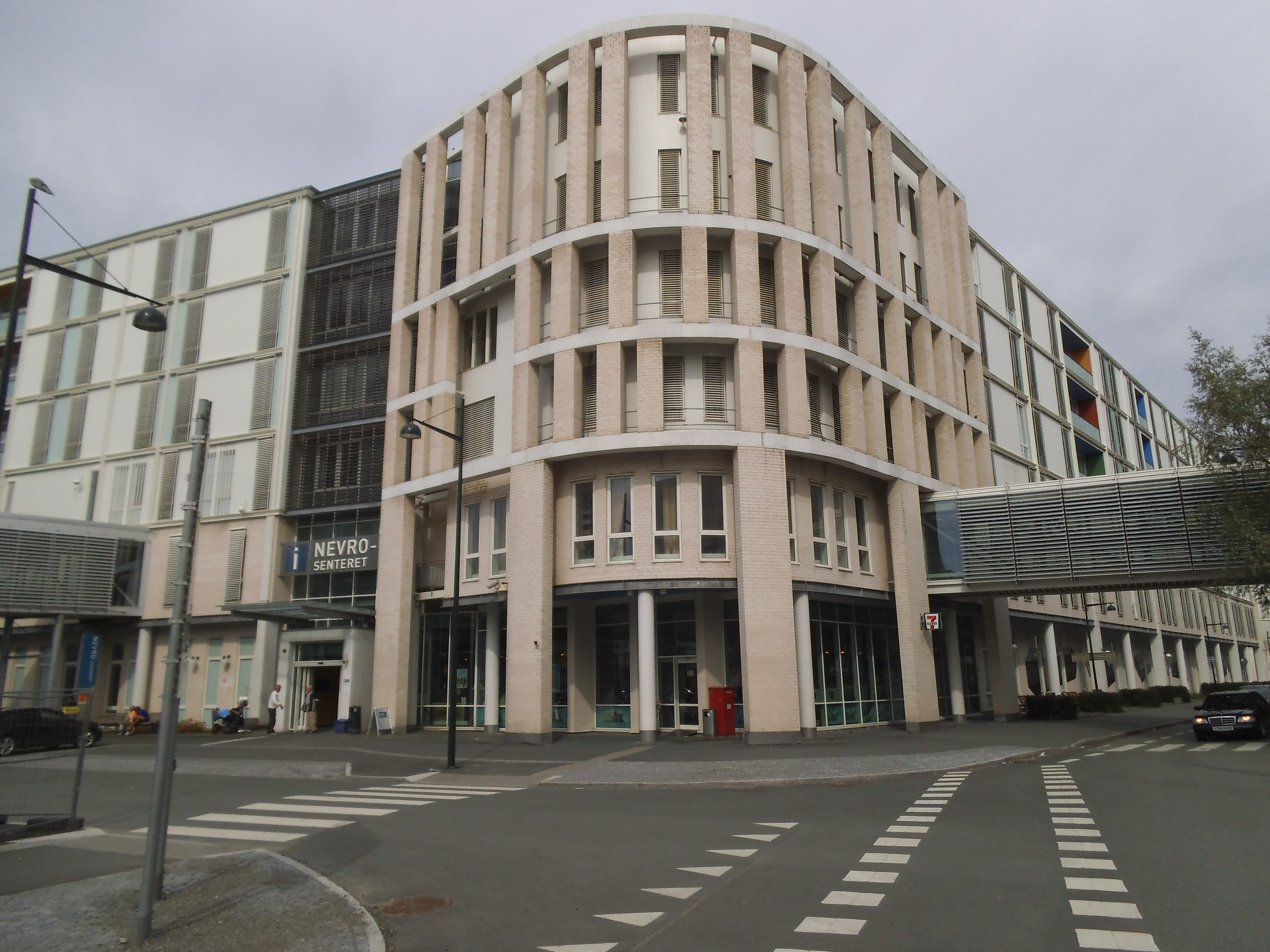 Et av nybyggene ved St. Olavs Hospital, retning øst. Bildet viser den sør-vestlige delen av Nevrosenteret. Åpnet i 2006.